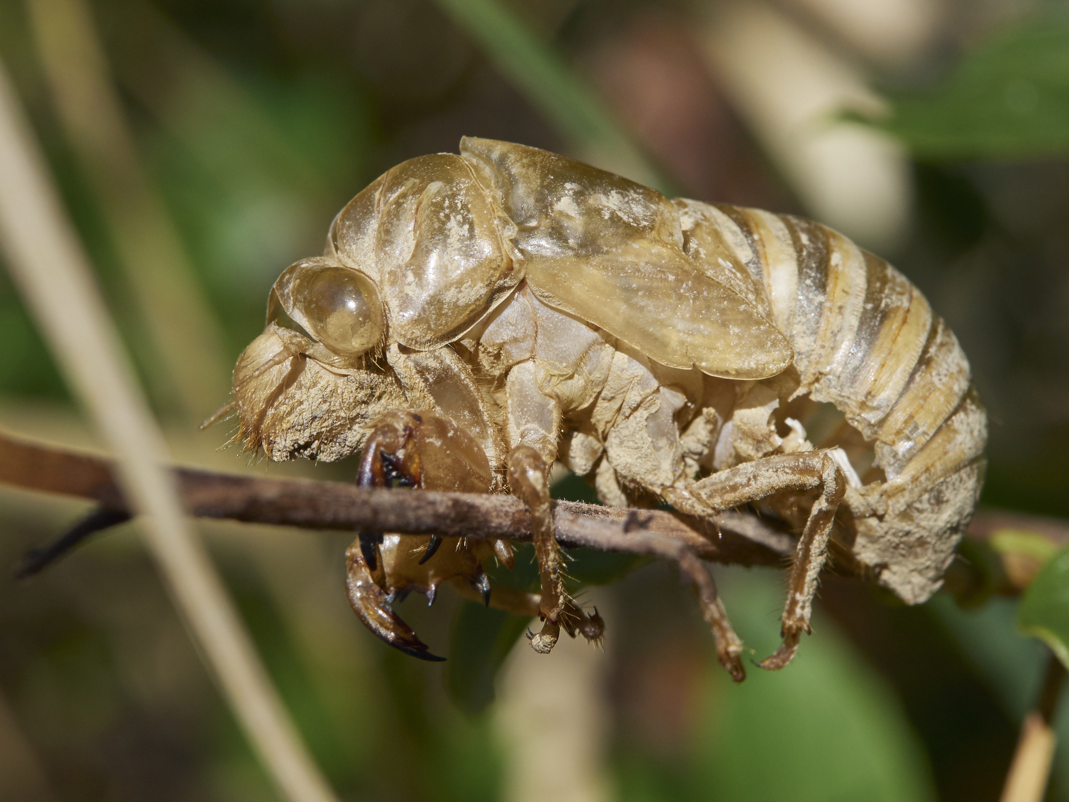 Exuviva of a cicada orni (Fam. Cicadidae), found 2017 near Koroni, Greece